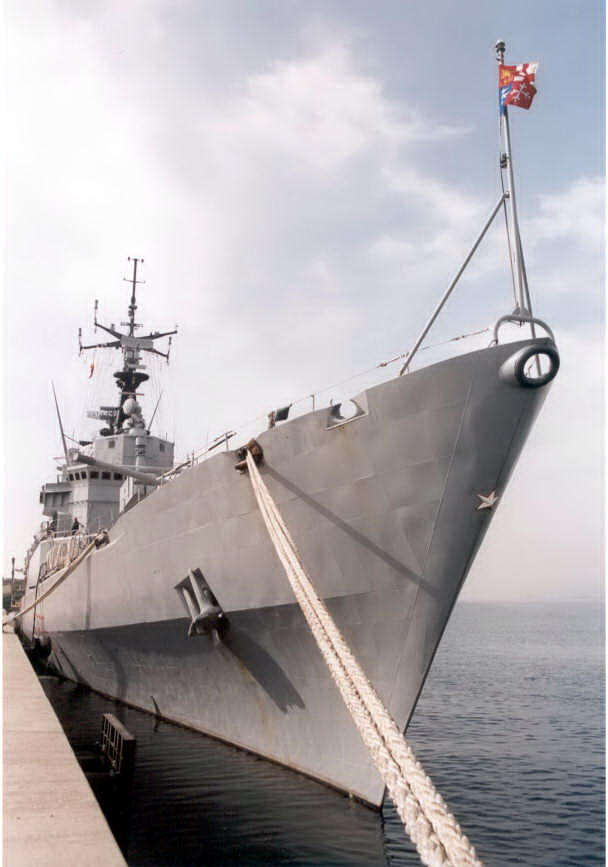 Italian frigate Euro in the port of Malaga